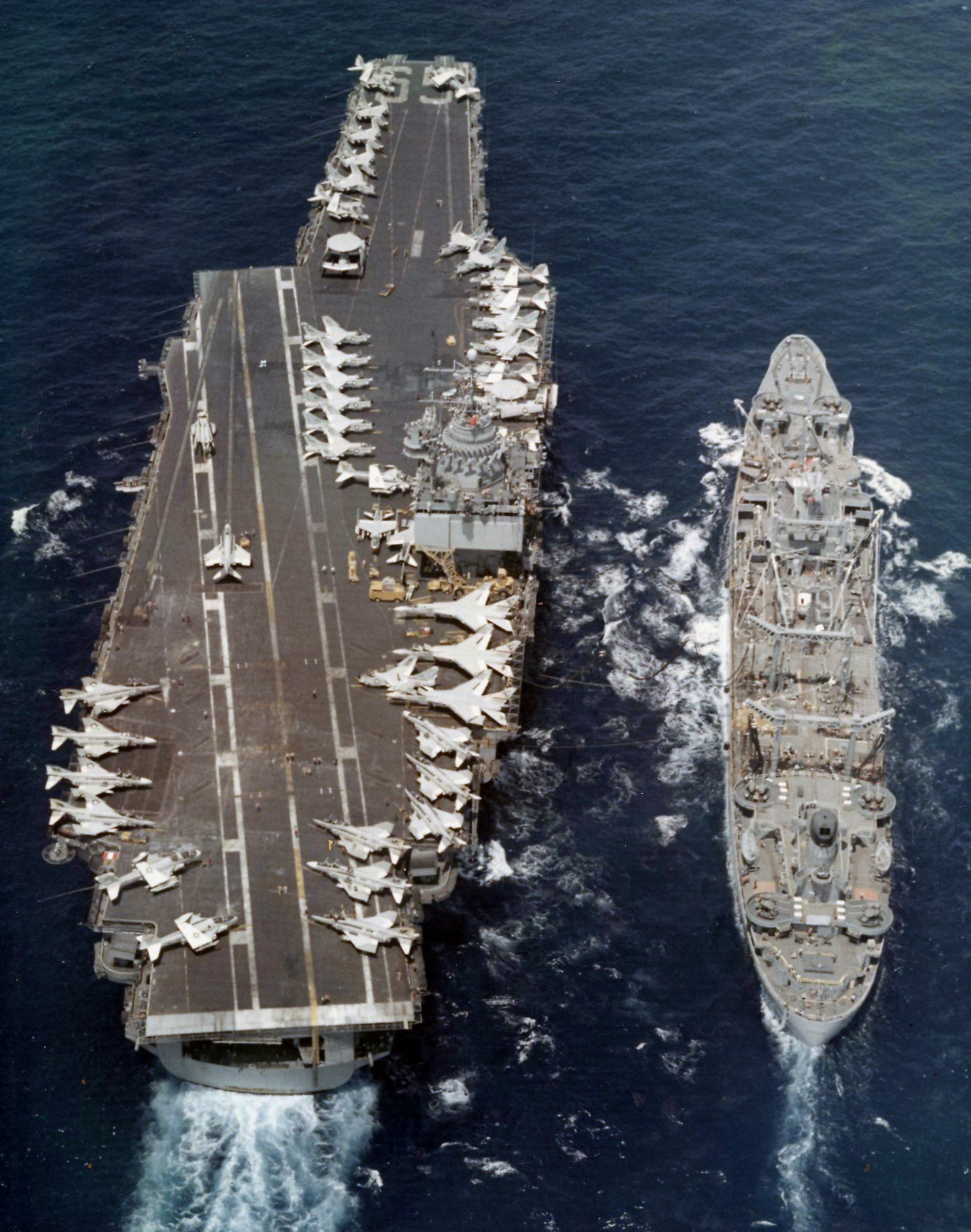 A U.S. Navy aircraft carrier USS Enterprise (CVAN-65) being replenished by the fleet oiler USS Hassayampa (AO-145) in the South China Sea. The Big E was deployed with Attack Carrier Air Wing 14 (CVW-14) to Vietnam from 12 September 1972 to 12 June 1973.